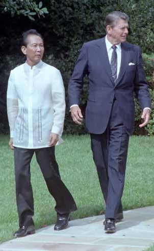 Cropped photo of President Reagan with President of the Philippines Ferdinand Marcos and Imelda Marcos during a state visit outside the Oval Office from this original upload.